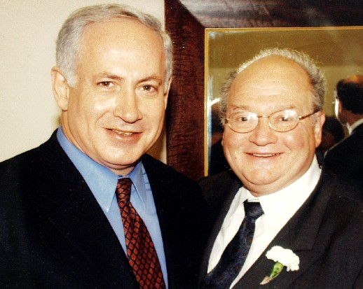 Congressman Gary Ackerman discussing the Mid-East peace process with former Israeli Prime Minister Benjamin Netanyahu.